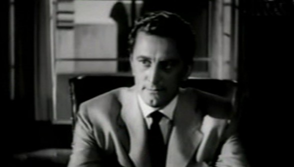 Cropped screenshot of Kirk Douglas from the trailer for the film The Bad and the Beautiful.